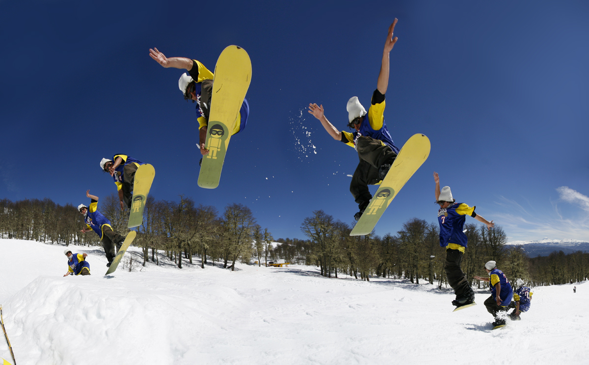 Roberto "Pepino" Menacho enjoying the 2008 winter season.